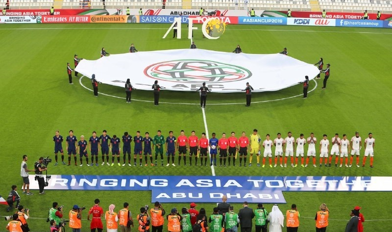 Starting XI of both India and Thailand before the commencement of the Group A match of 2019 AFC Asian Cup.